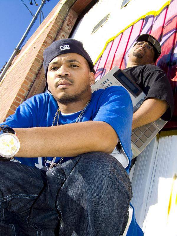 Teak "Tha Beatsmith" and Dee Underdue of Hallway Productionz